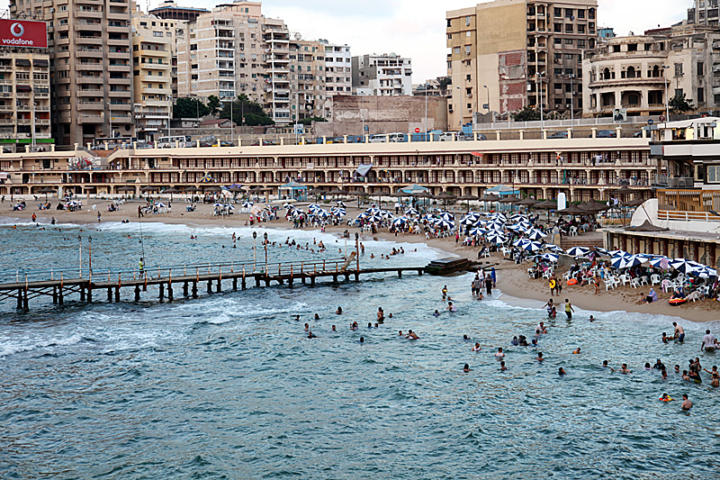 Stanley beach, Alexandria, Egypt